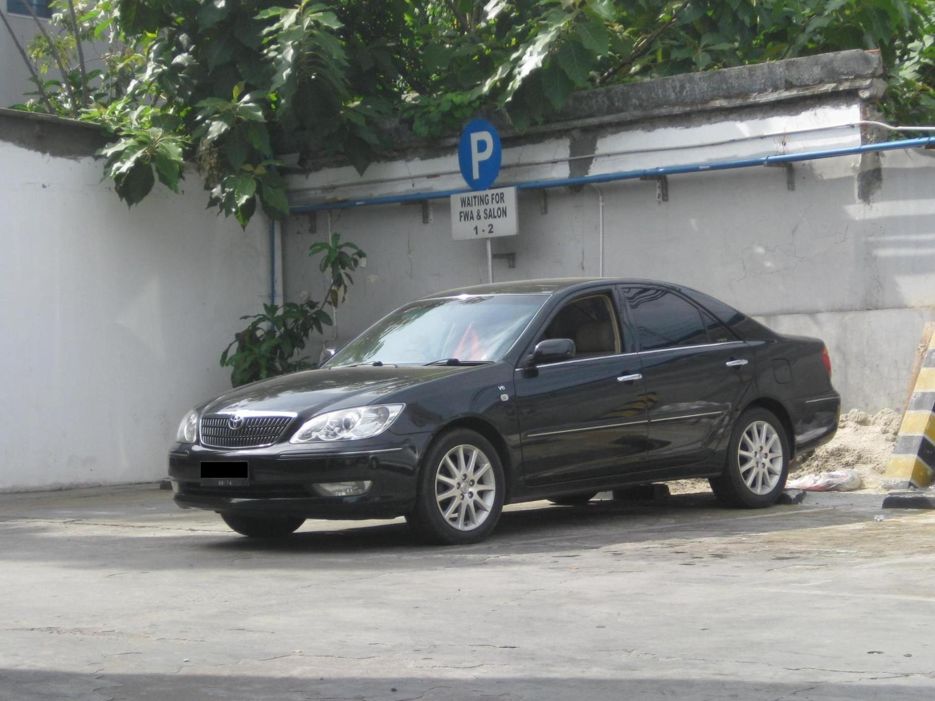 2004 Toyota Camry V6 3.0 V (MCV30). Photographed in Jakarta, Indonesia.